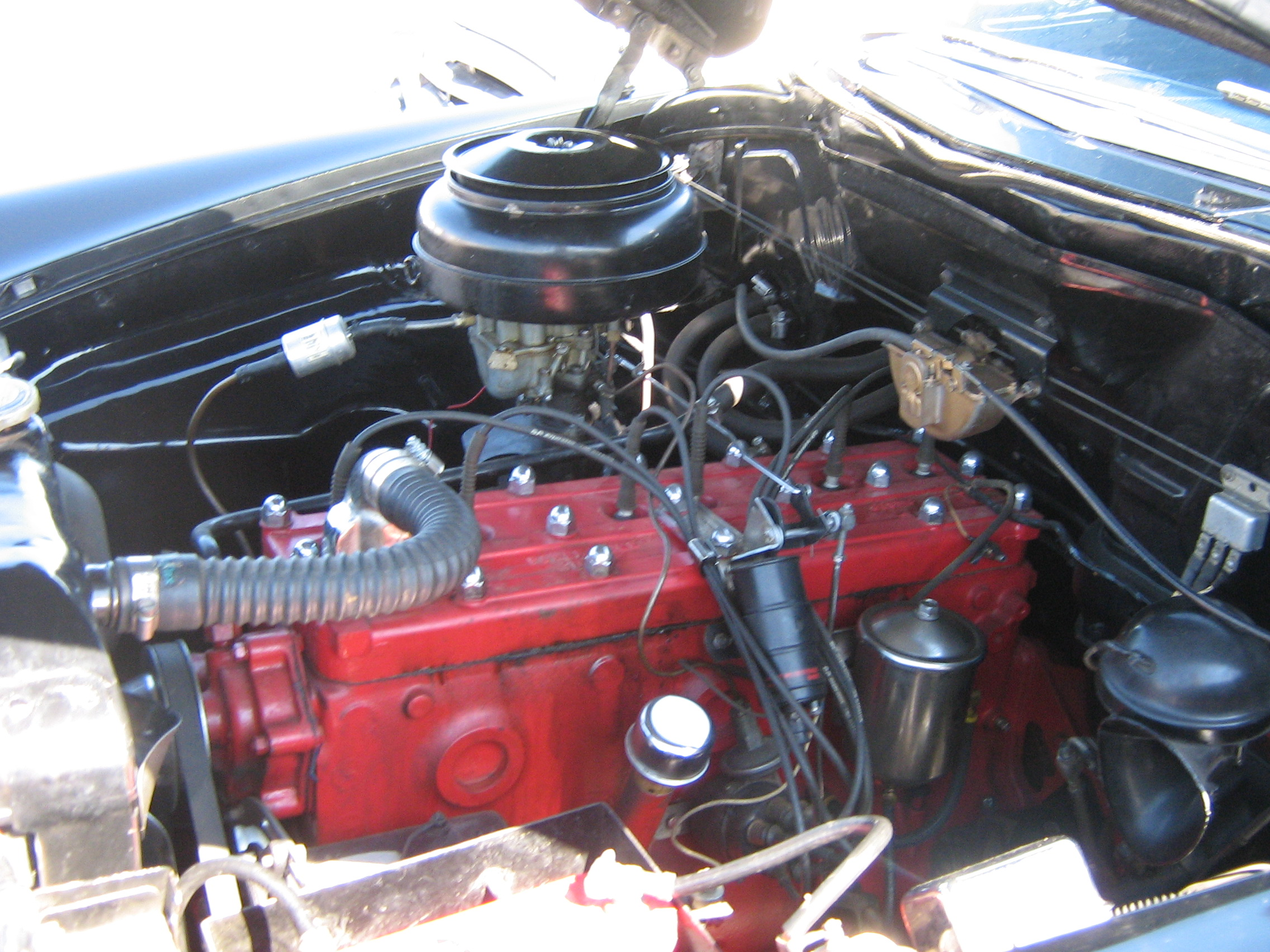 1954 Hudson Wasp flat head six engine